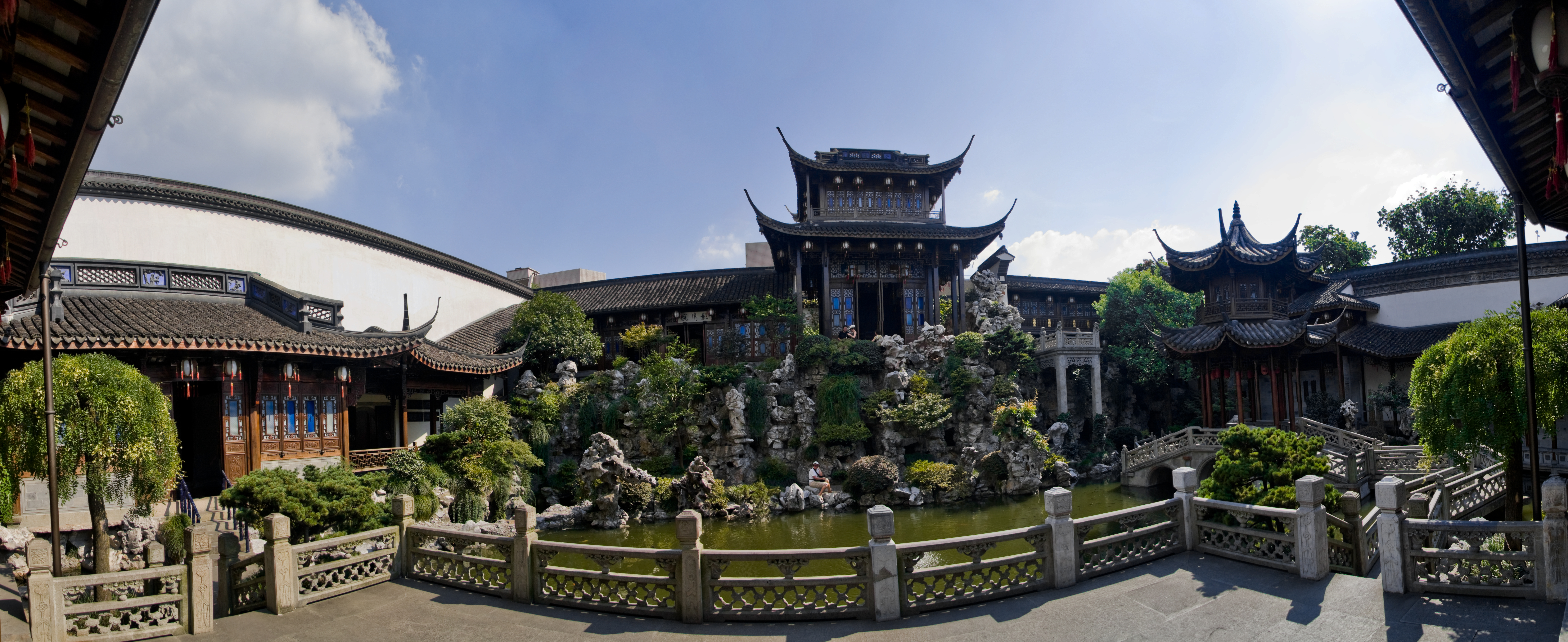 Hu Xueyan's former residence in Hangzhou, China